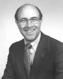 A head shot of Governor Mike Sullivan from doing his time as Governor of Wyoming.